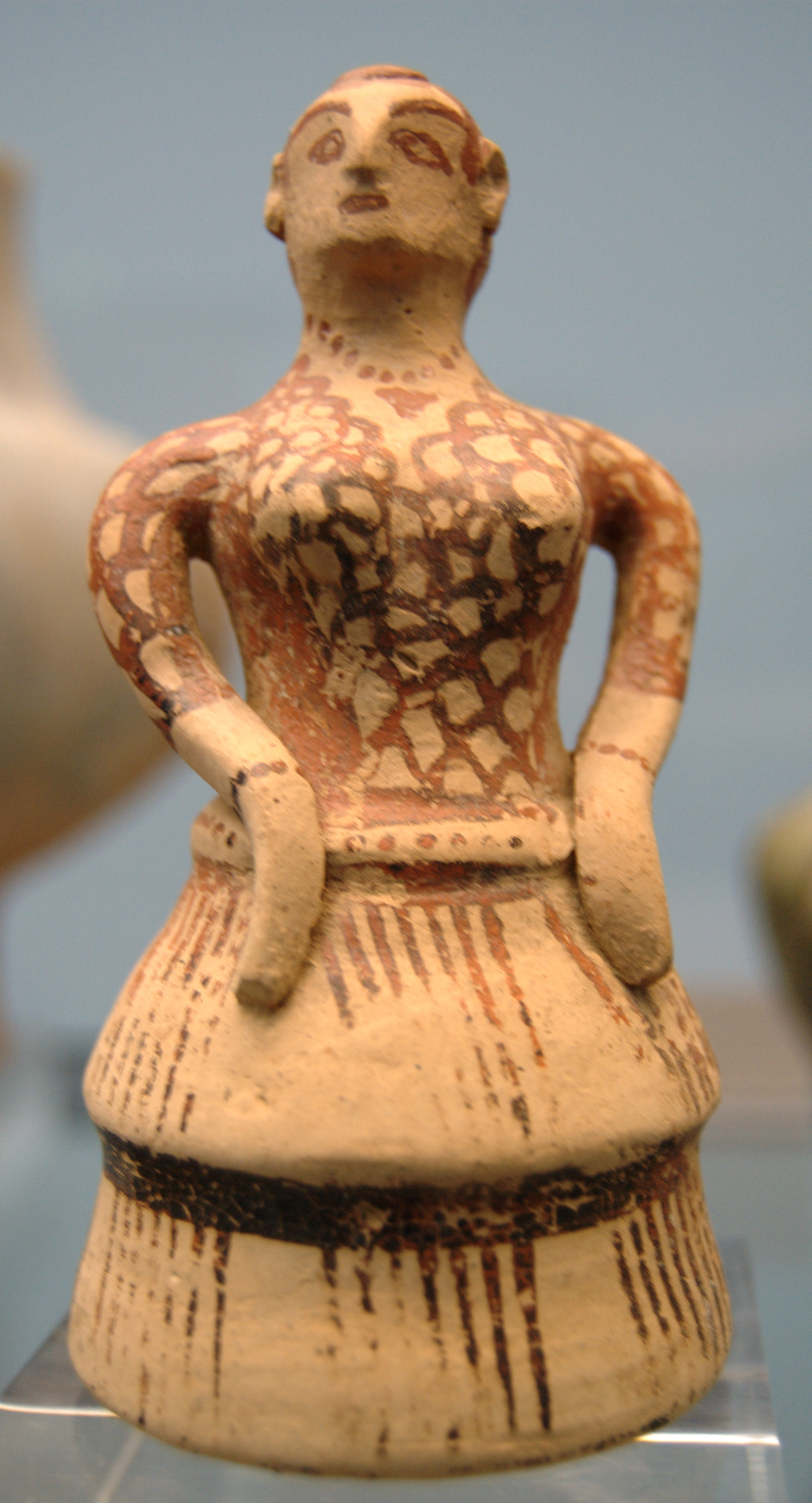 Lady in Cretan costume: sleeve jacket and flounced skirt, braids, earrings, bracelets and collar. Sparta, ca. 1400 BC.